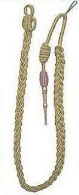 forage in the colors of the ribbon of the Military Medal, with an olive-colored ribbon of the cross of war theater of operations, french Battalion of the United Nations.